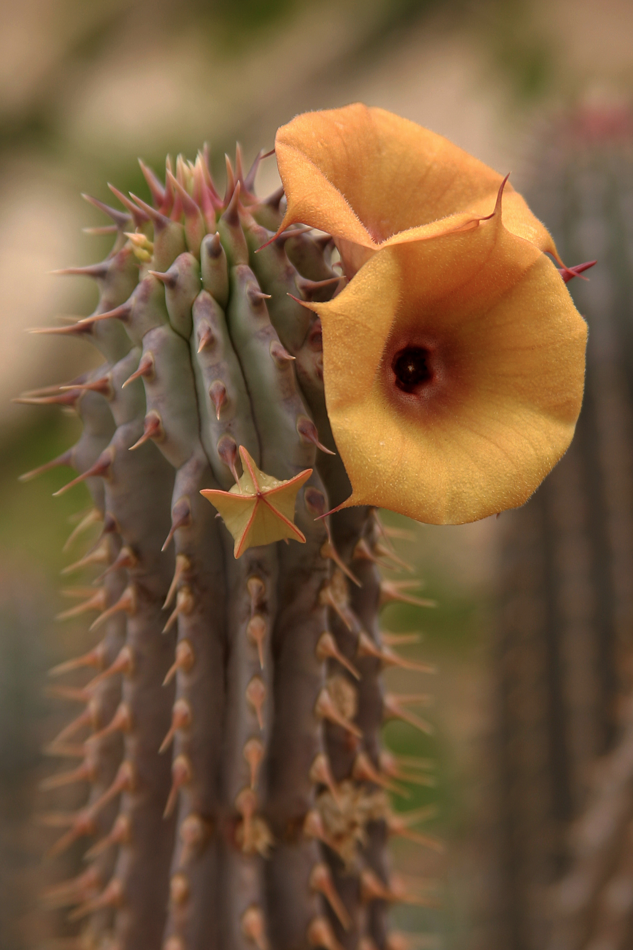 Hoodia parviflora, flowers; between Okangwati and Epupa Falls, Kaokoveld, Namibia